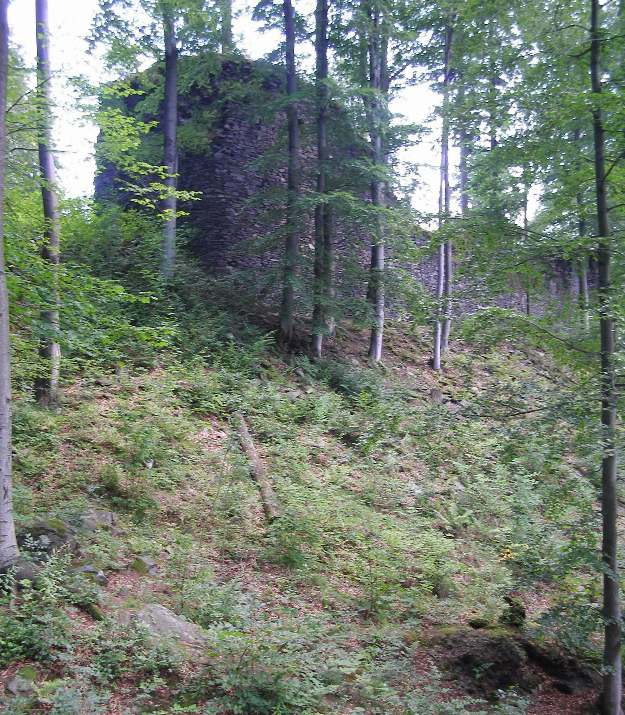 Ruins of the Szczerba Castle